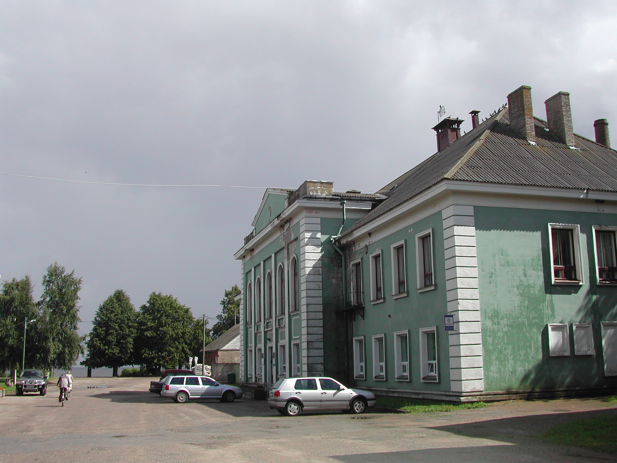 Building in Kallaste, Estonia